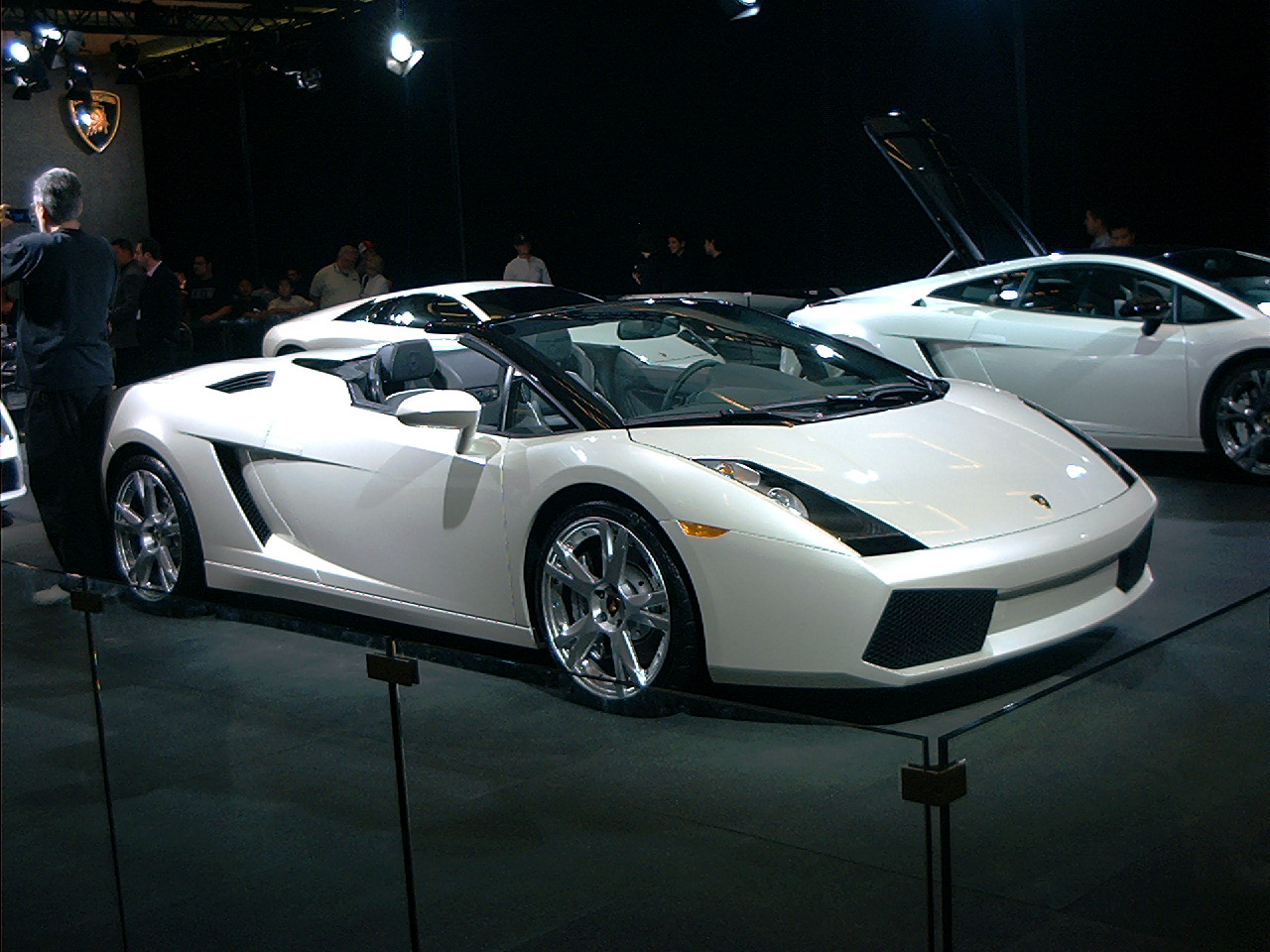 A group of white Lamborghini Gallardos, a Spyder at the front, at the 2006 Greater Los Angeles Auto Show. (Photo taken by Covinan)